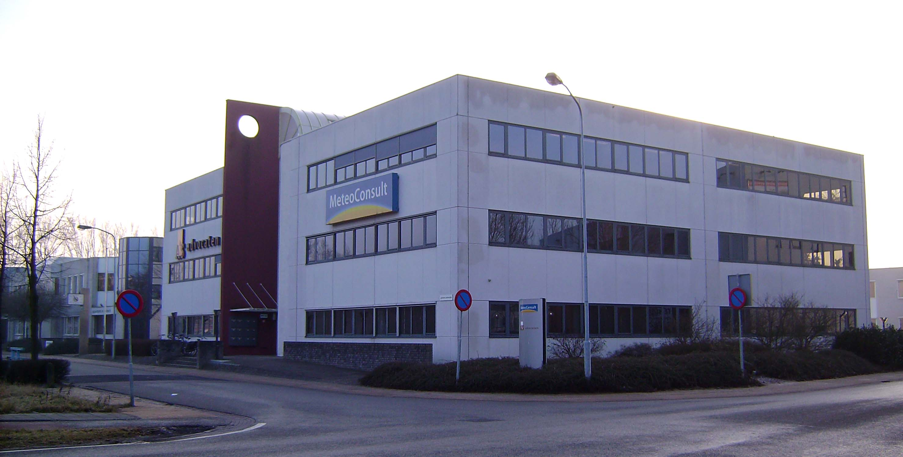 Weather company Meteo Consult's head office in Wageningen, The Netherlands.